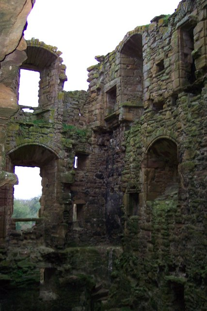 Baltersan Castle Baltersan Castle was built in 1584 and is now for sale!